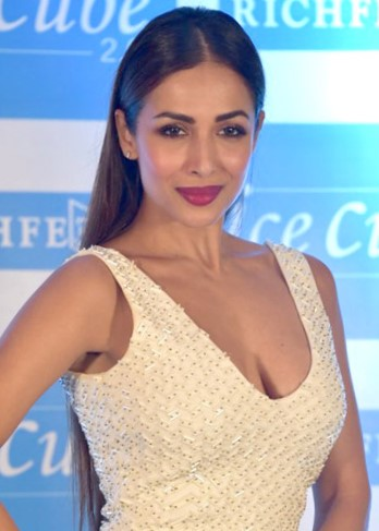 Malaika Arora at the launch of Richfeel Ice Cube 2.0 technology.